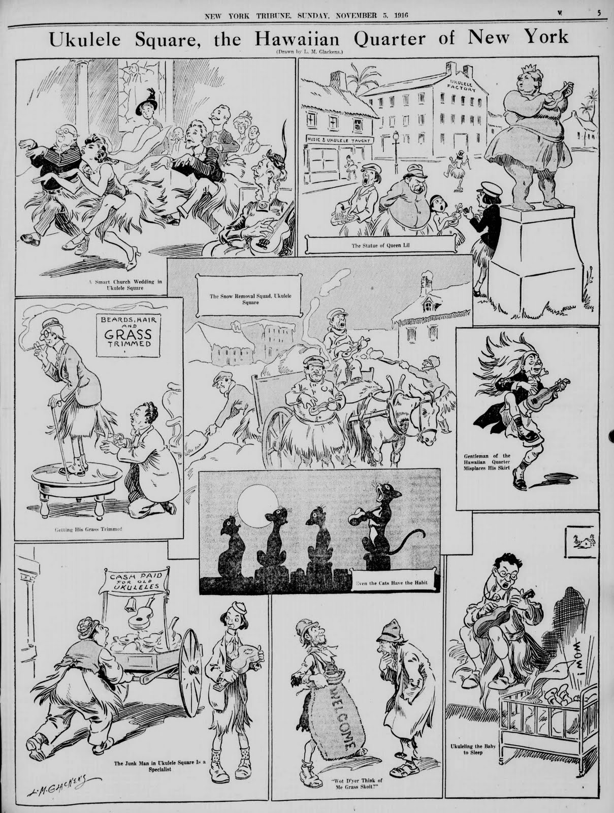 1916 cartoon satirizing fad for ukuleles and Hawaiian music. "Ukulele Square, the Hawaiian Quarter of New York".